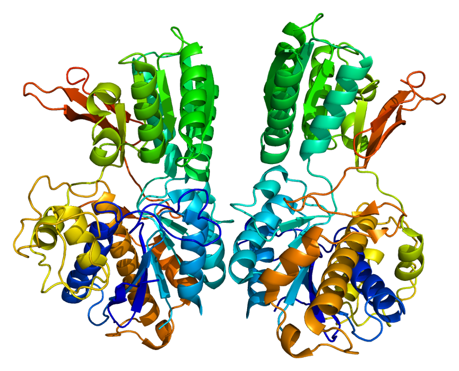 Structure of the GRM1 protein. Based on PyMOL rendering of PDB 1ewk.